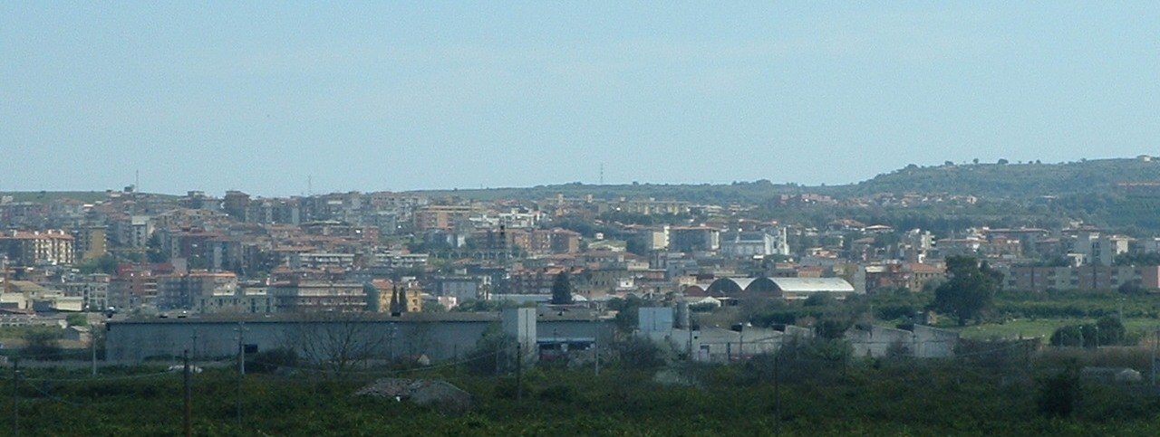 Lentini (SR), View from S.P. (provincial road) Valsavoia.